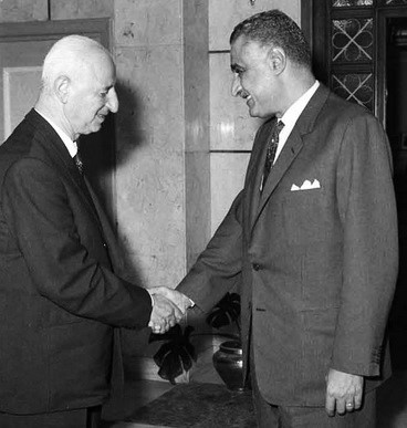 Former Jordanian Prime Minister Sulayman al-Nabulsi being recieved by Egyptian President Gamal Abdel Nasser in Cairo. Nabulsi headed the Jordanian delegation to Arab Parliamentary Conference